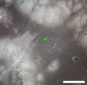 Green dot shows location of Horatio, Taurus-Littrow Valley, on the moon. Scale bar at lower right is 5 km.